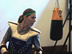 Natalia Falavigna was the first Brazilian taekwondo athlete to win an Olympic medal: bronze at Beijing 2008